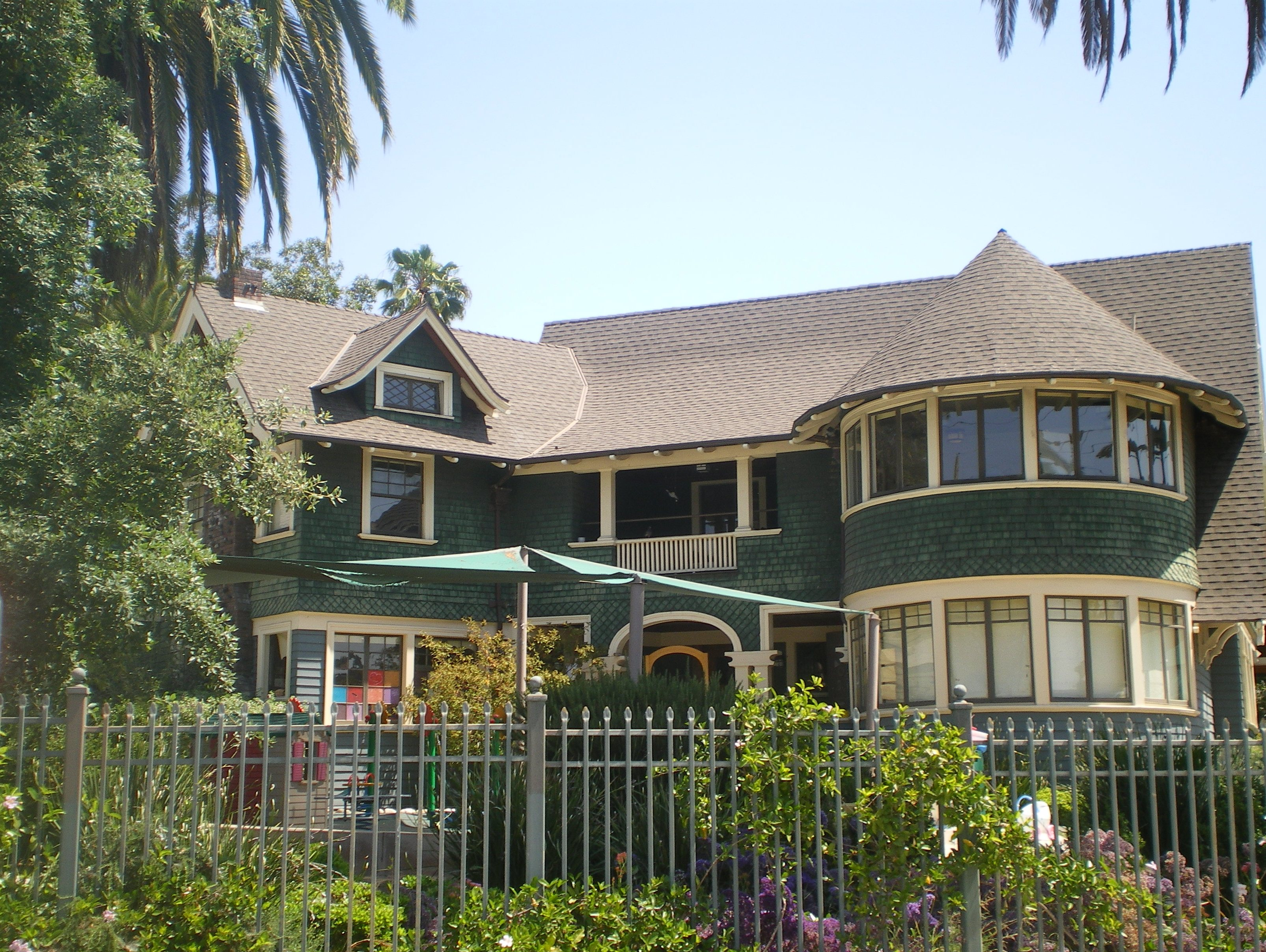 Ziegler Estate — 4601 N. Figueroa Boulevard, Highland Park, Los Angeles, California.